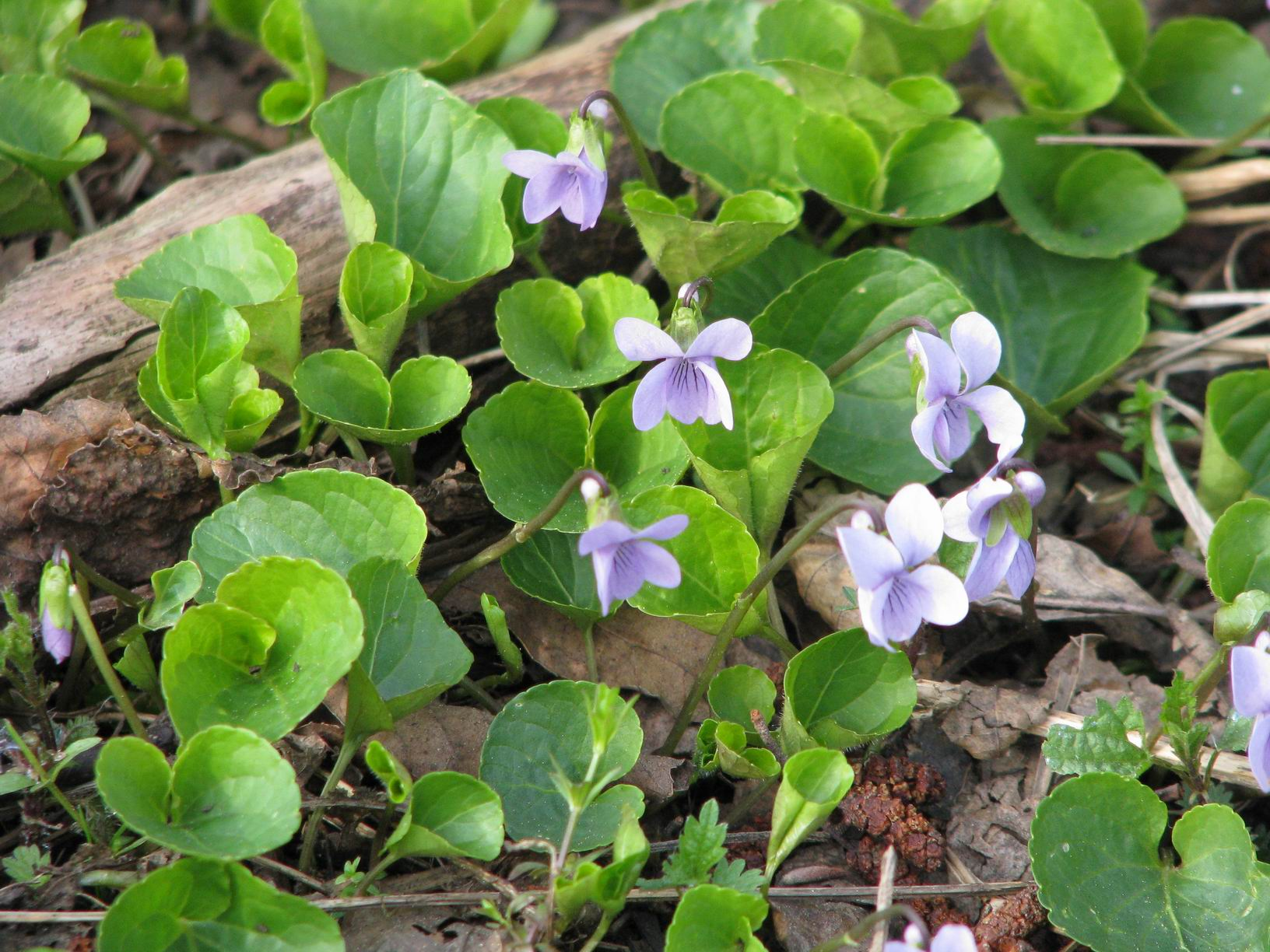 Viola epipsila. Savinsky District of Ivanovo Oblast, Russia